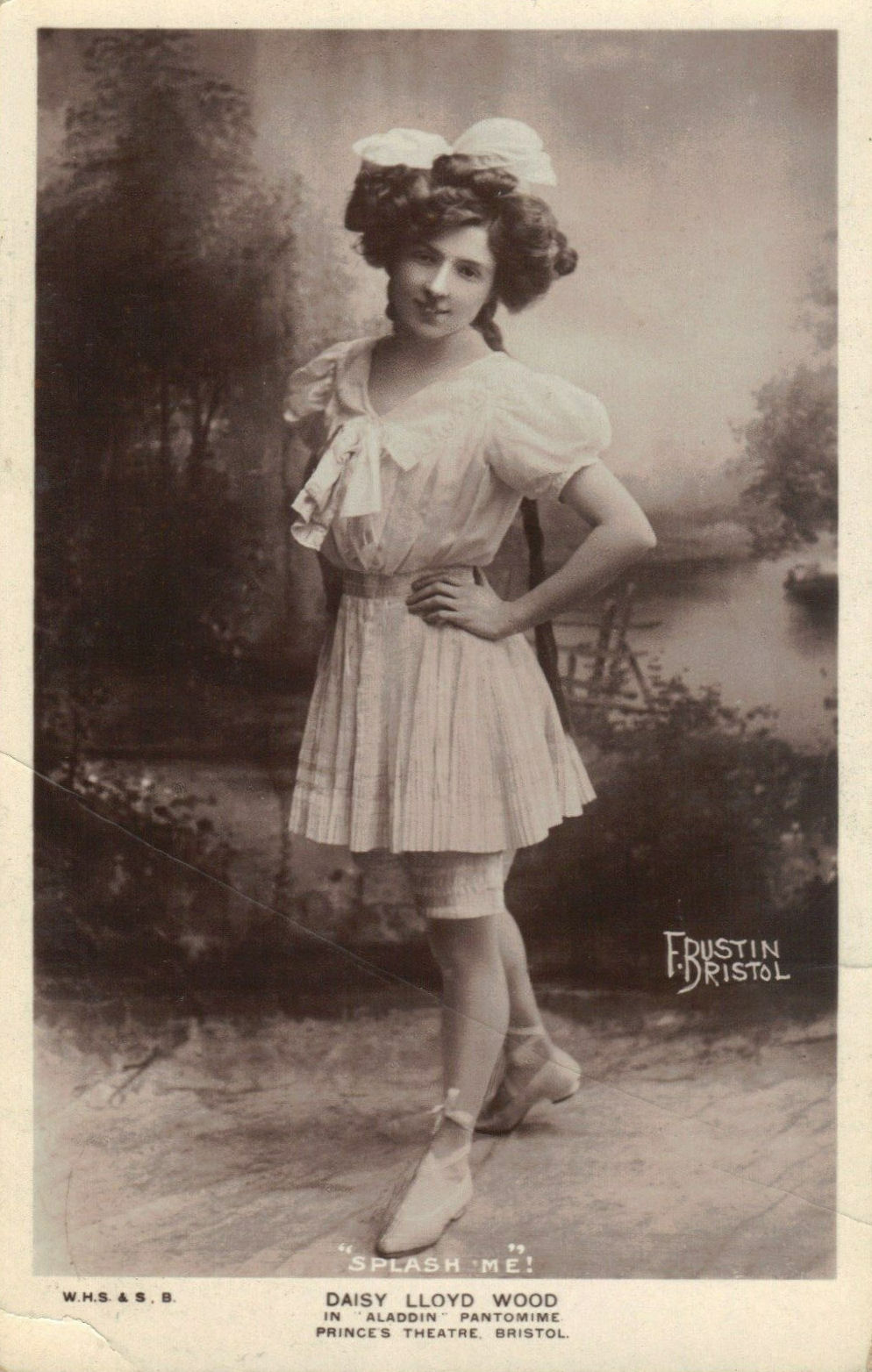 Daisy Wood in the pantomime 'Aladdin' at the Princes Theatre, Bristol 1909